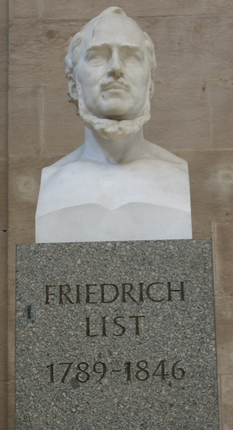 A statue of Friedrich List at the main railway station of Leipzig.